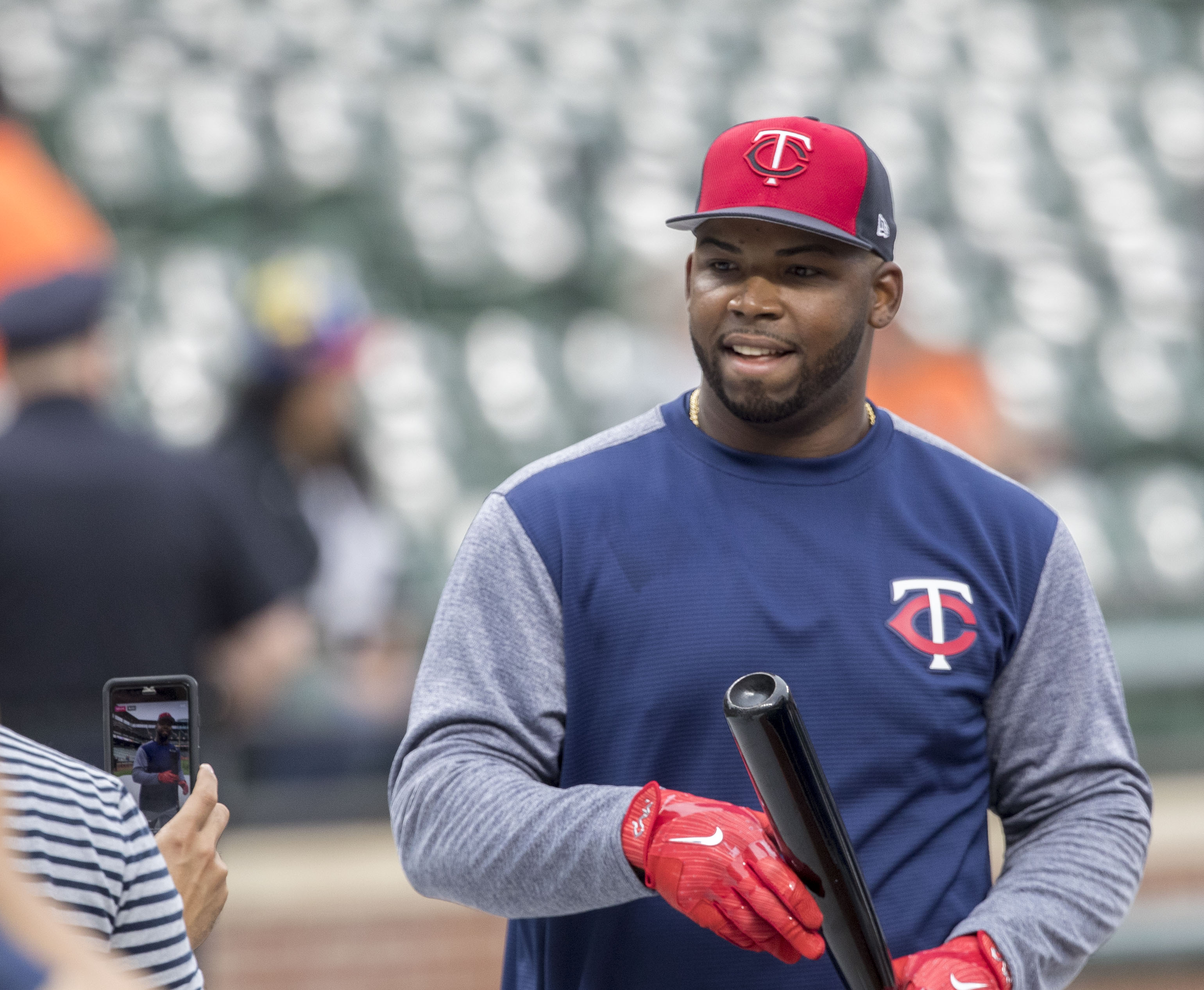 Twins at Orioles 5/22/17